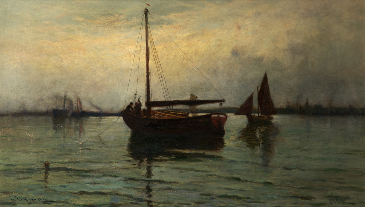 Seascape Weighing the Anchor.